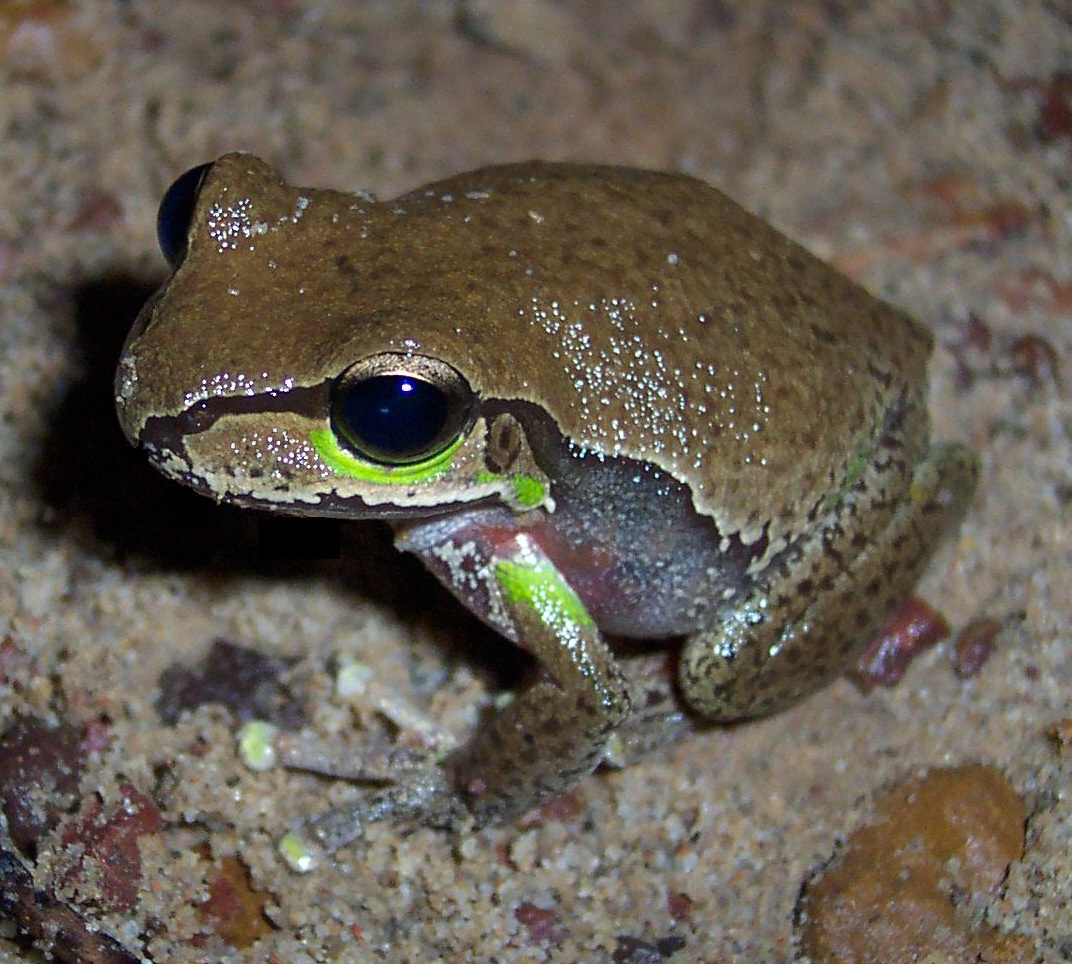 A Blue Mountains Tree Frog (Litoria citropa) showing a mostly brown colouration.colouration.